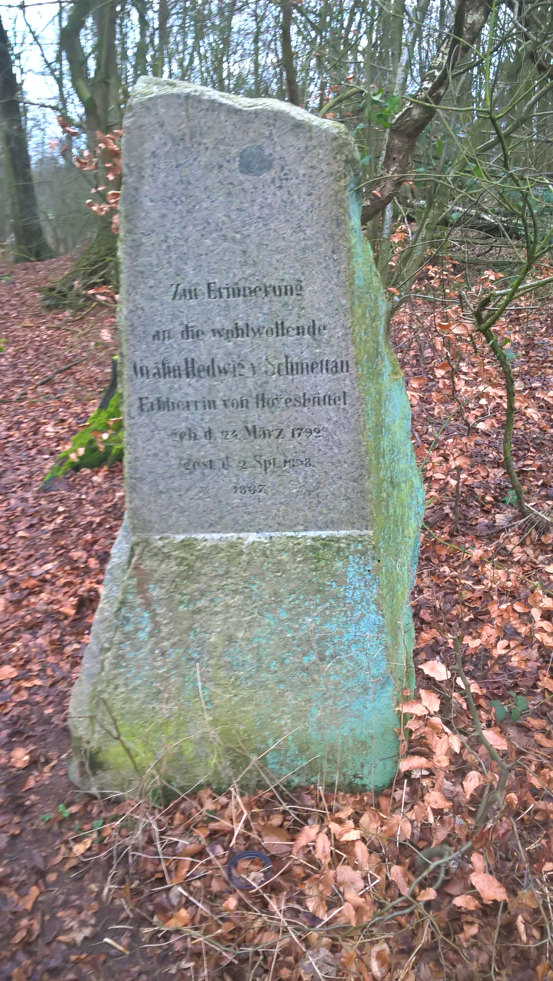 Memorial stone on the Schüberg in Ammersbek, Schleswig-Holstein in honor of Countess Hedwig von Schmettau (* 24.03.1792, † 02.09.1858)